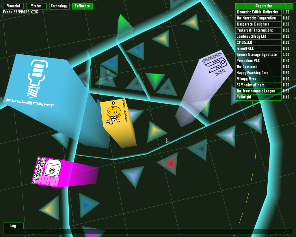 Screenshot from the game AdvertCity